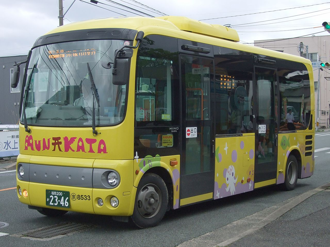 Nishitetsu Munakata City Community Bus “Fureai-Bus” 西鉄バス宗像 宗像市ふれあいバス